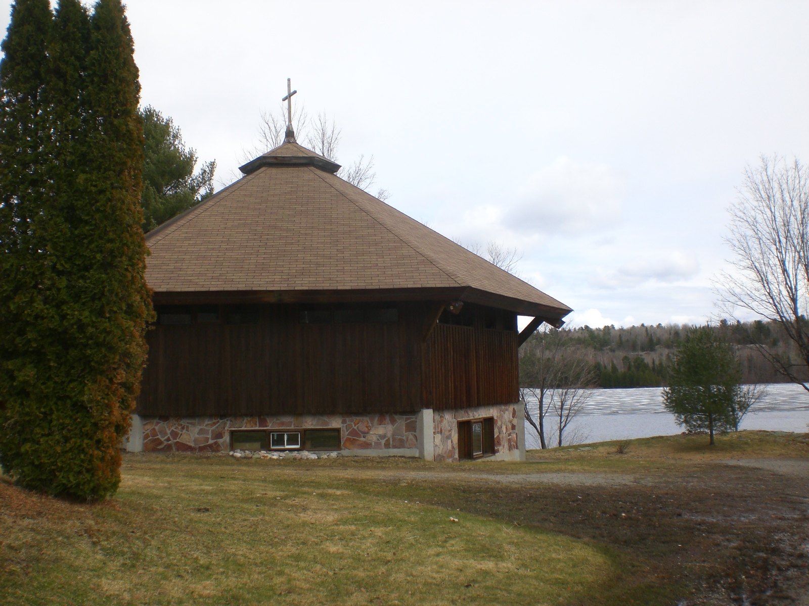 Photo of the chapel of Anishinabe Spiritual Centre, Espanola